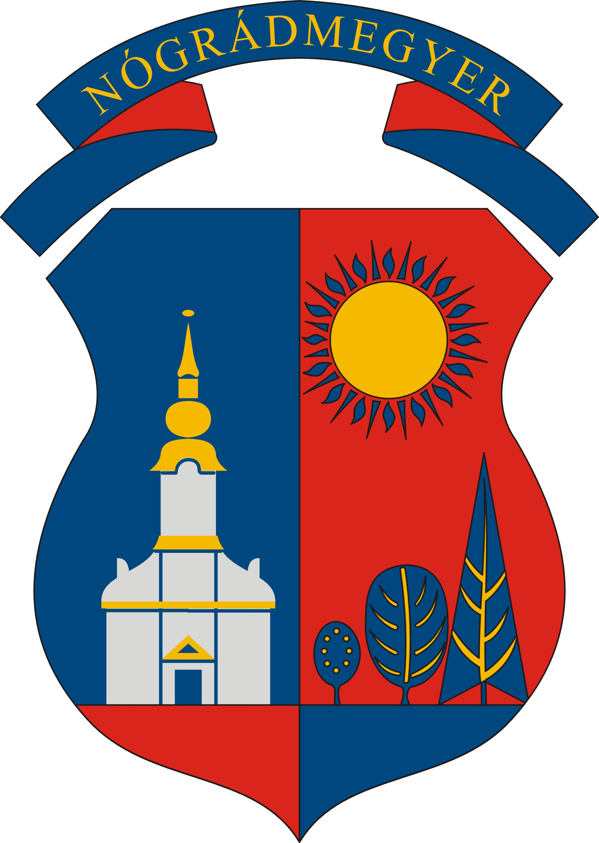 Coat of arms of Nógrádmegyer, Hungary